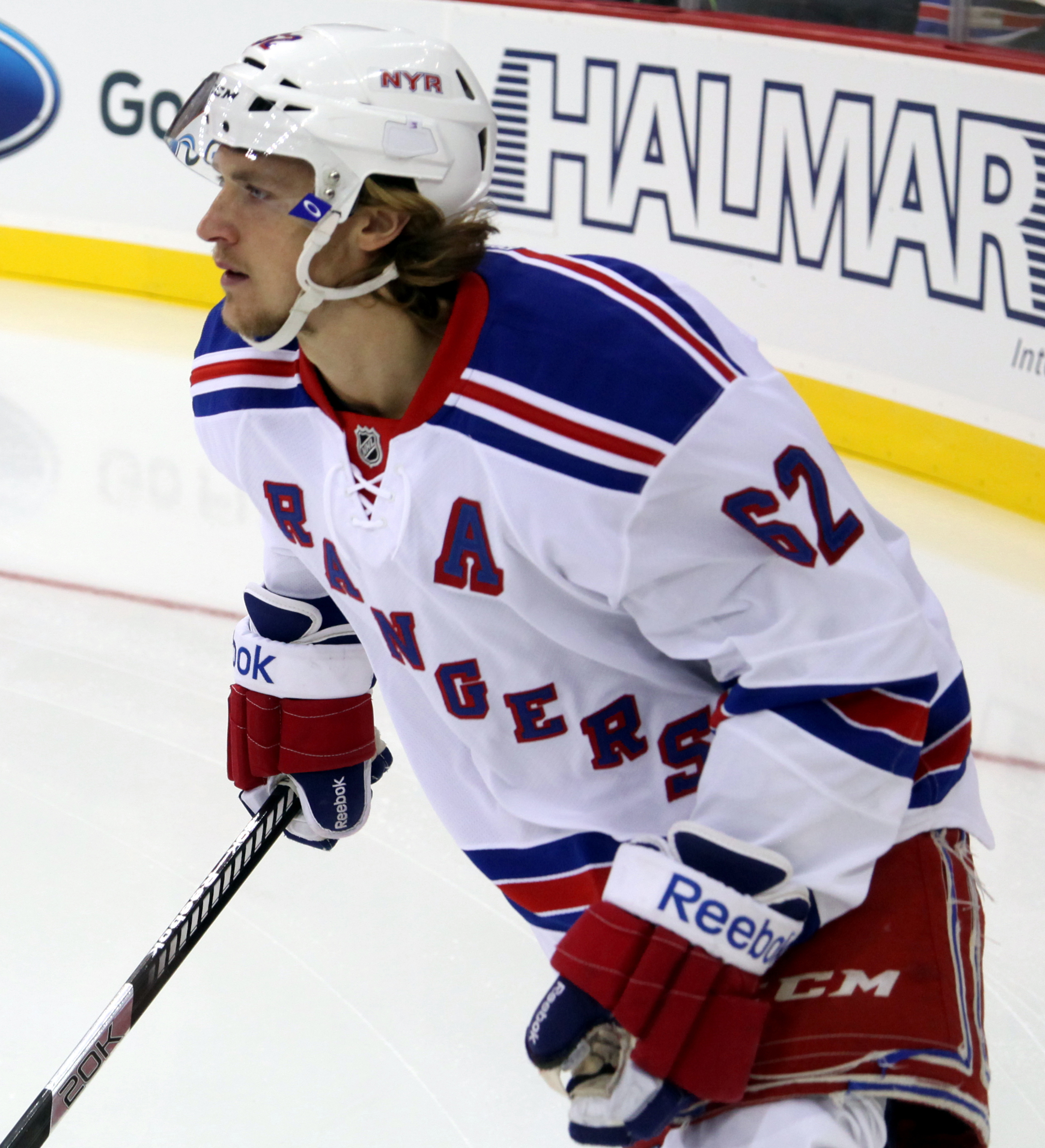 Hagelin as a member of the Rangers in 2014.